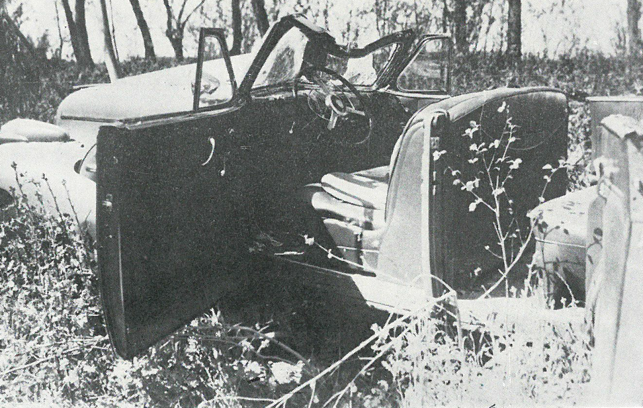 Car of Ghazi of Iraq after accident, pictured taken in morning of the day of accident